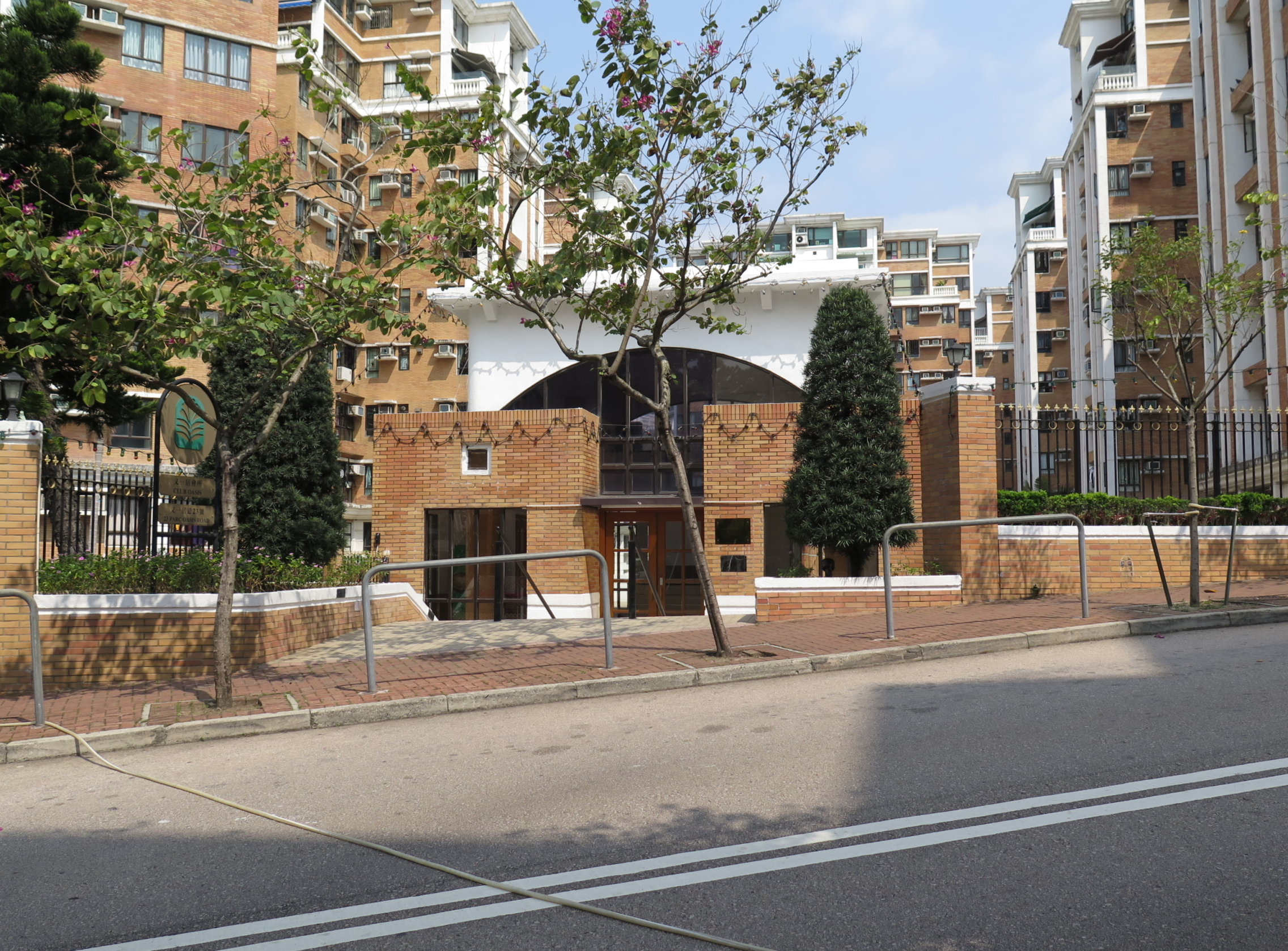 Parc Oasis Clubhouse, Kowloon Tong